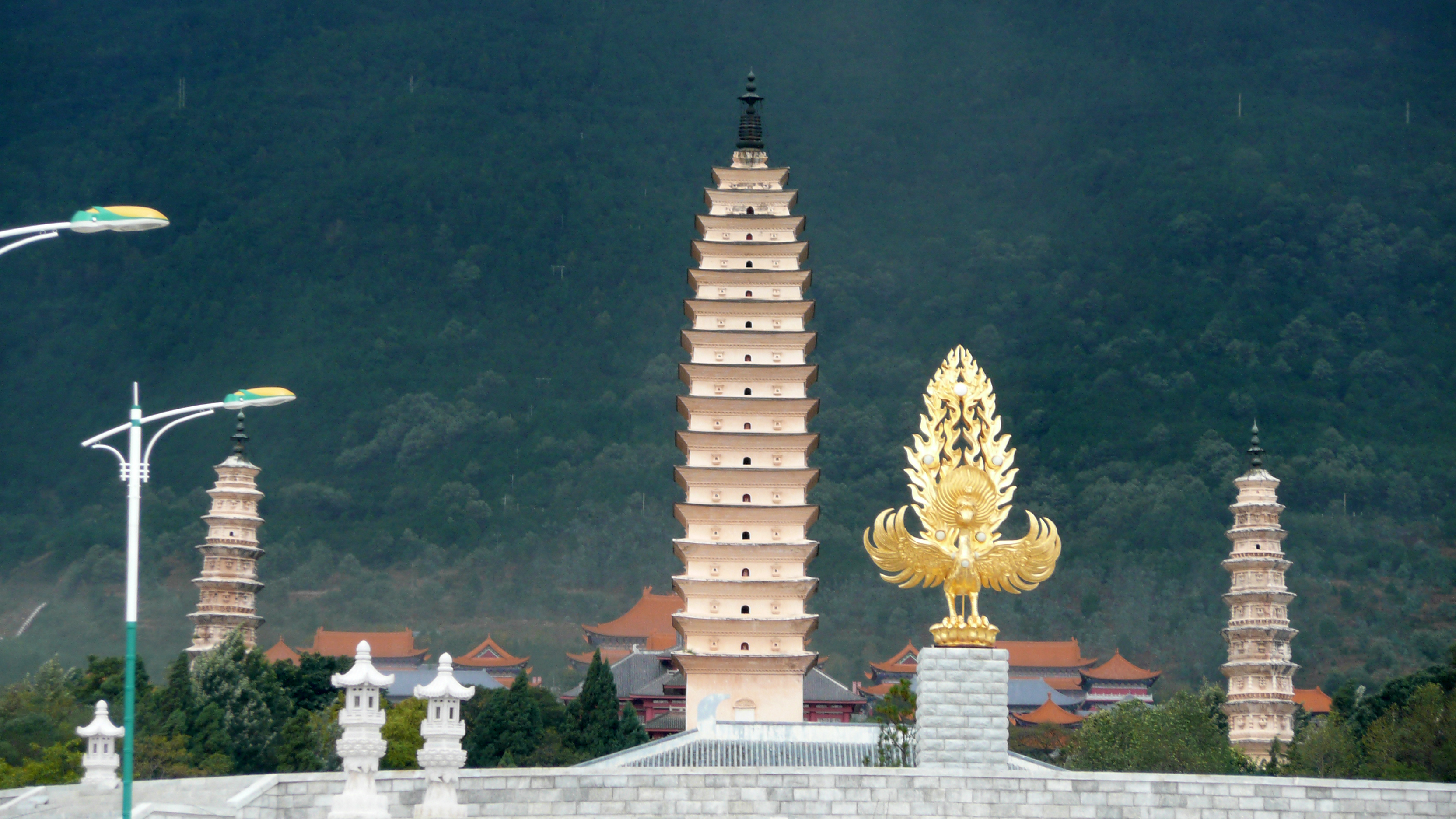 Three Pagodas of Dali (Yunnan)